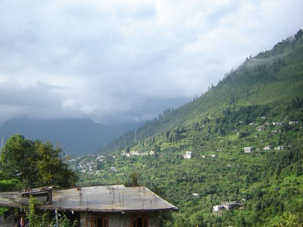 View of Sarahan from a hotel room there. Sarahan, Himachal Pradesh, India